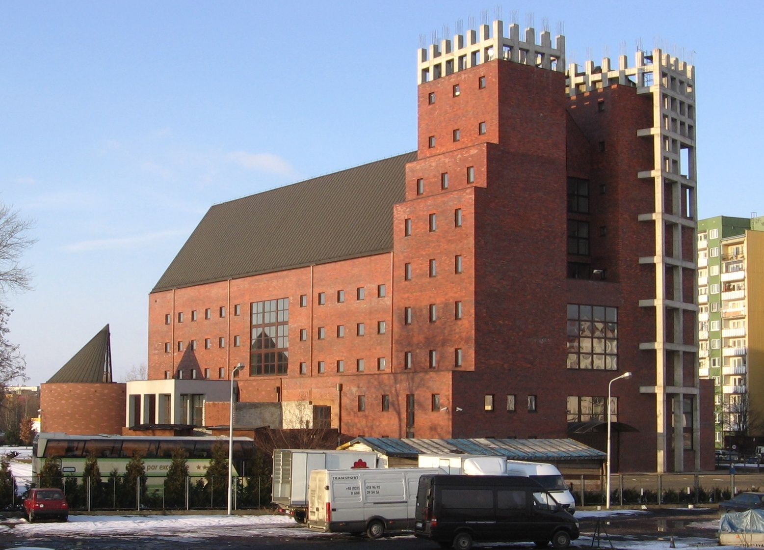 Wrocław, Poland, view from south